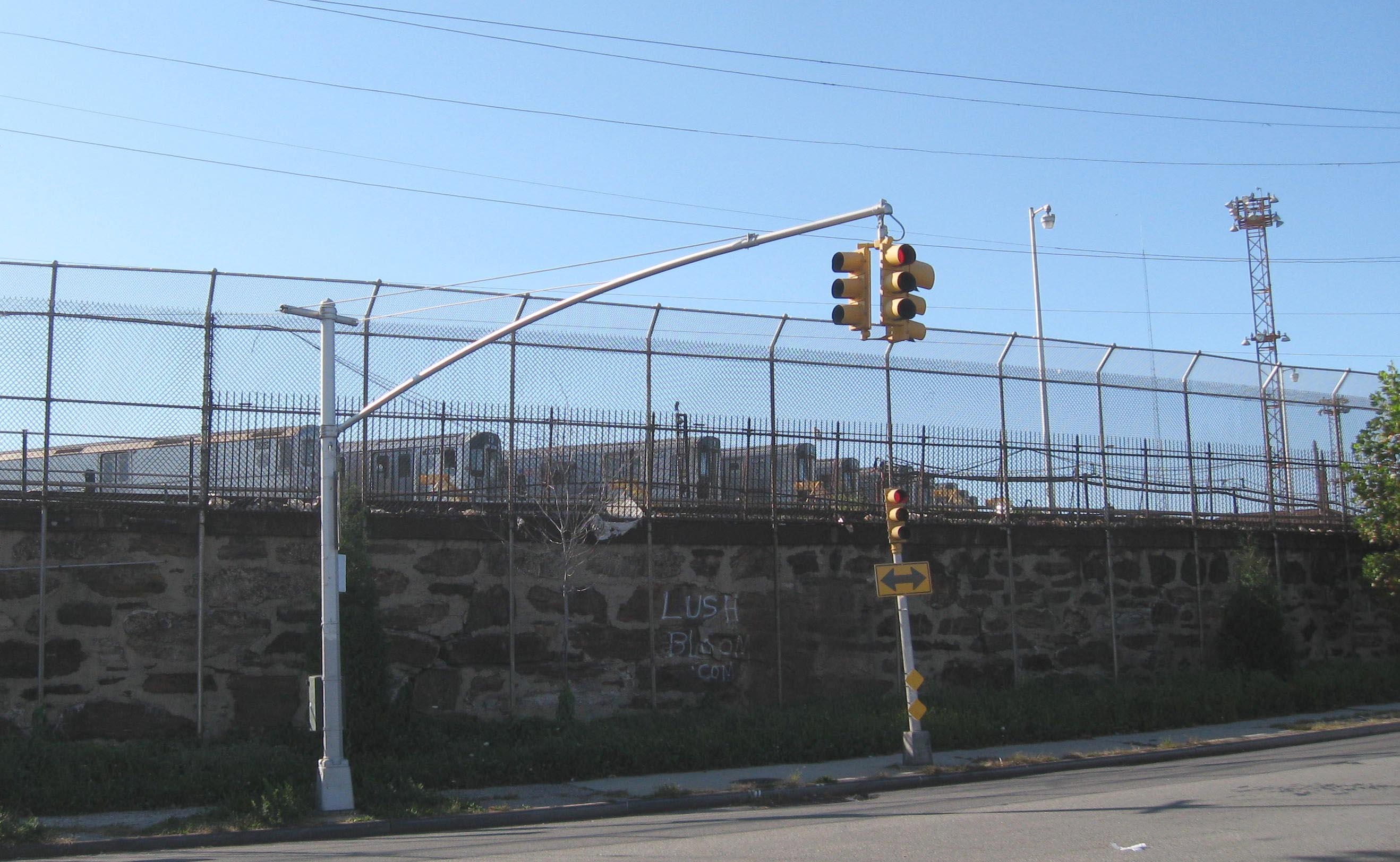 Looking west and up from 241st Street at en:239th Street Yard on a sunny midday.